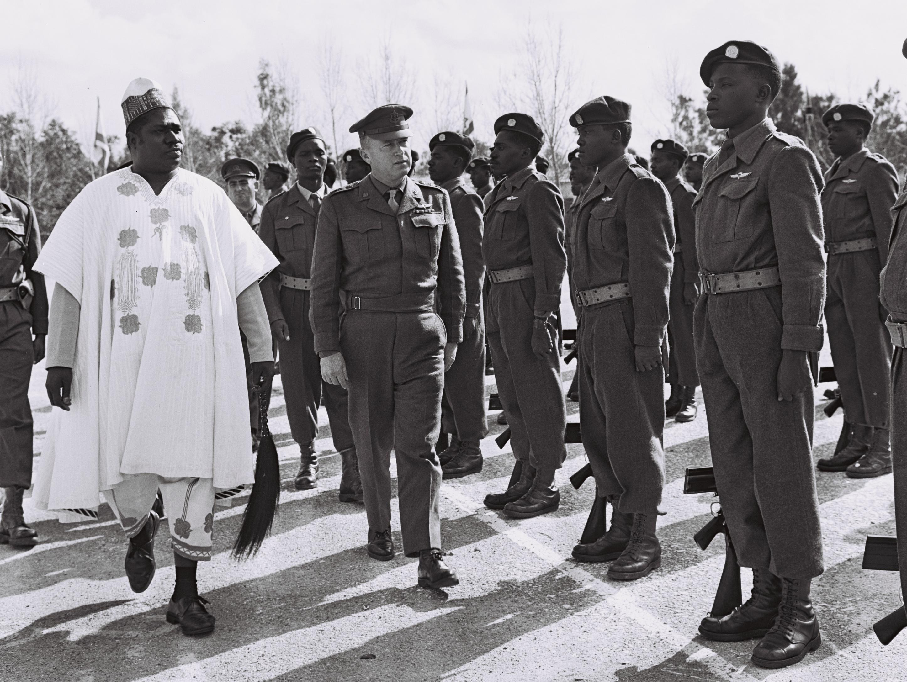 Rav Aluf Yitzhak Rabin and Tanzania min. Martin Houle inspecting police paratroupers from Tanzania on conclusion of their 3 months training course in Israel.